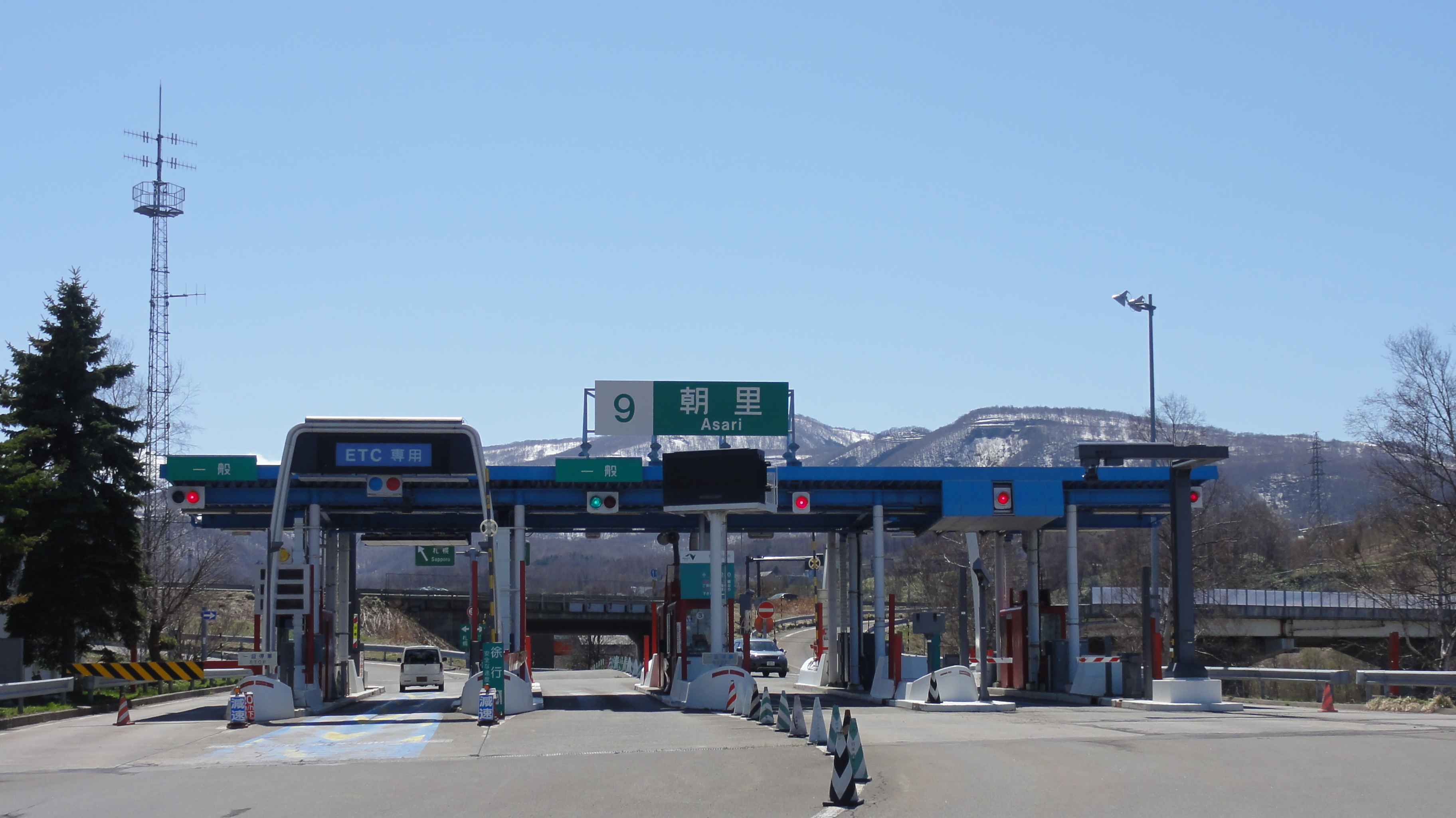 Asari InterChange ,Hokkaido prefecture, Japan